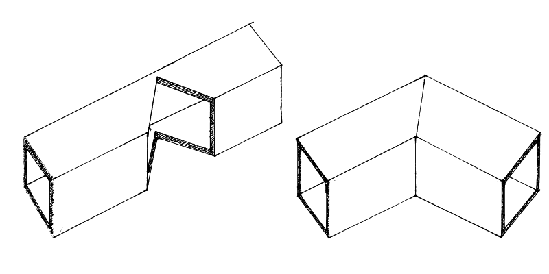 Notched tube, then folded in a mitreing operation.